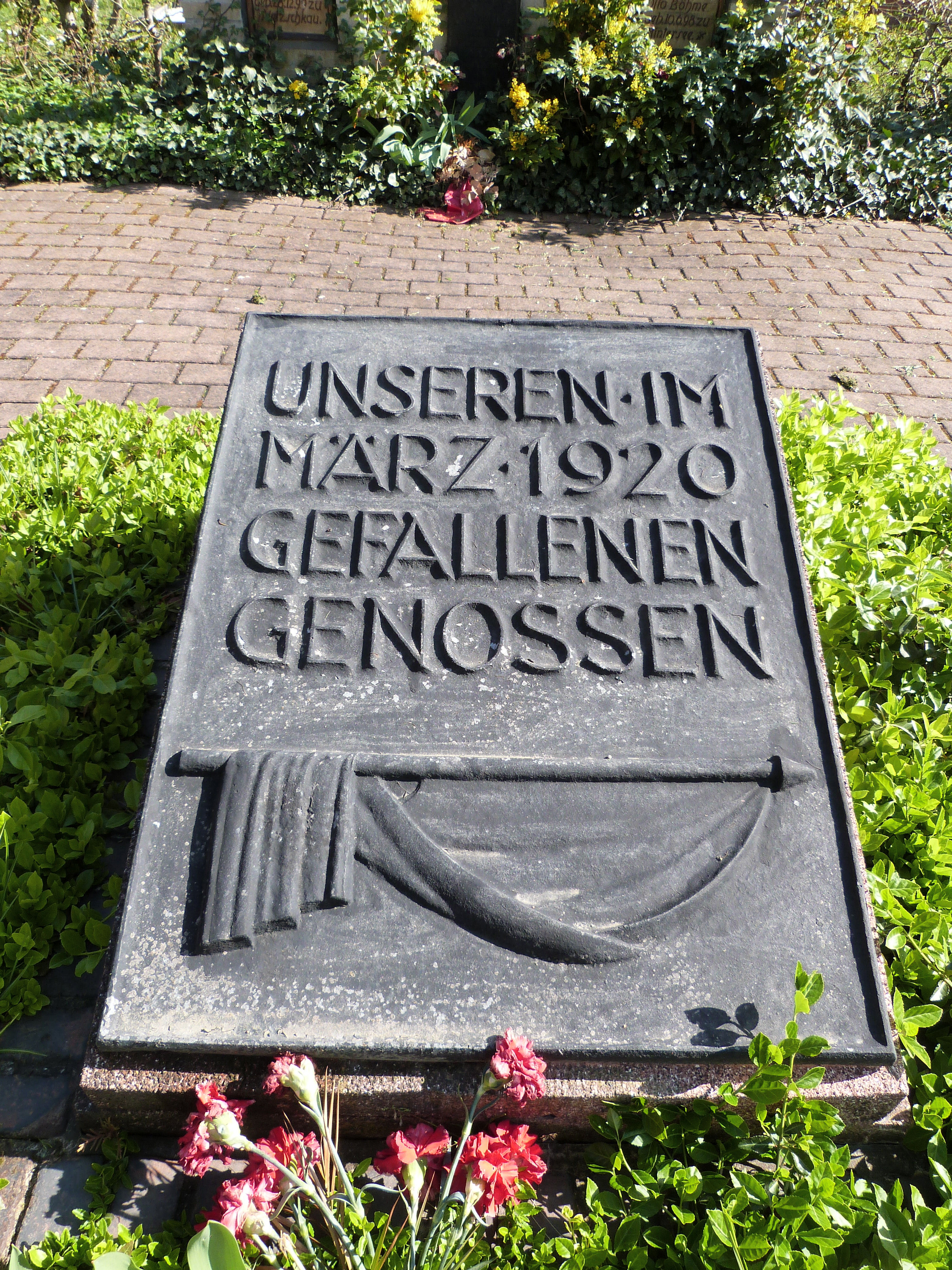 Cemetery Ammendorf in Halle (Saale), memorial to the fallen in March 1920